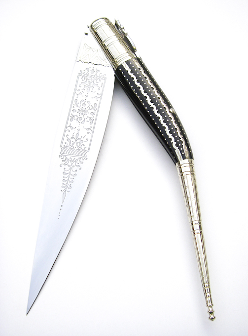 Navaja Artesanal represents artisans who are the acknowledged masters’ cutlers of Albacete. These cutlers have the Master Craftsman Certificate issued by the Ministry of Industry and Trade of Castilla La Mancha, which recognizes the experience and knowledge of the artisan. In many cases, their work has won awards in competitions like the Regional Cutlery organized by APRECU, and have been part of numerous international travelling exhibitions or are in important public and private collections worldwide, including the Museum’s permanent collection of Cutlery in Albacete. Some of these masters are part of the second or third generation of craftsmen who have inherited the manufacturing techniques. Others have been their apprentices or are self-taught, but they all have in common not only the methods of construction, but also a recognition of this work by fellow professionals in this area.